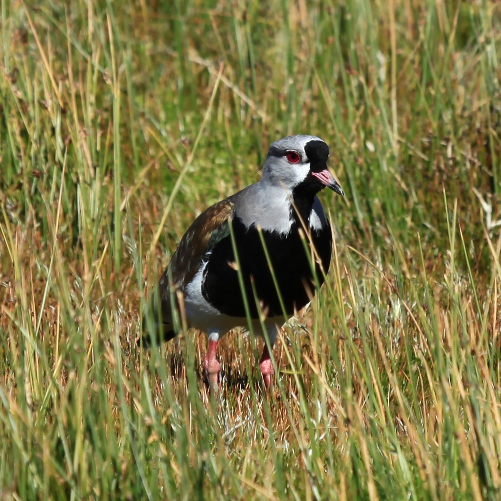 Photographed at the Laguna Nímez Reserve in El Calafate, Argentina.